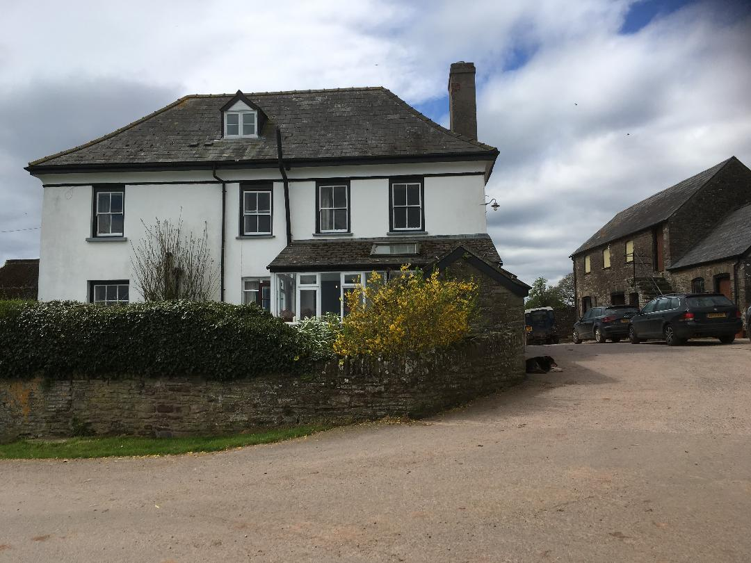 Upper White Castle Farm, Llantilio Crossenny